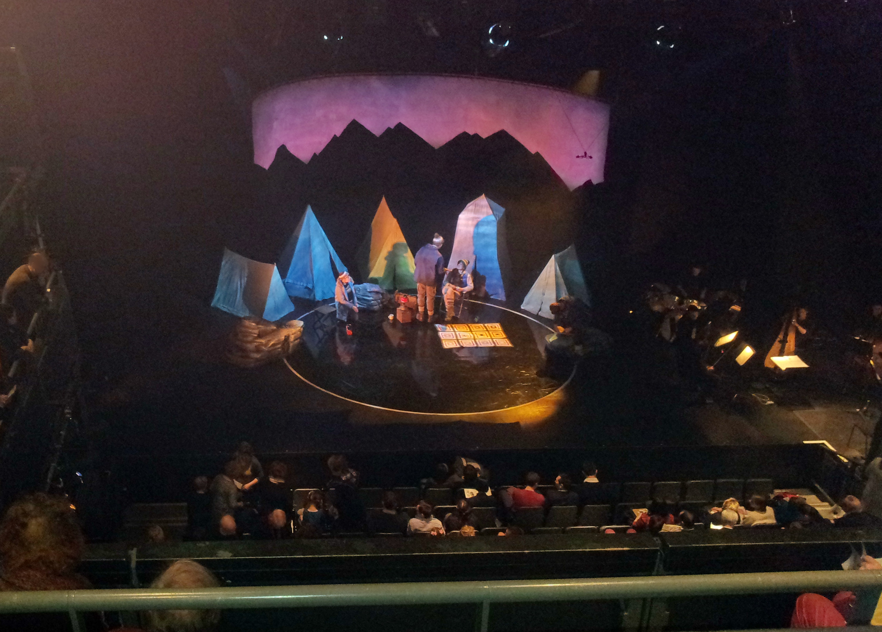 London, Royal Opera House Covent Garden. Set of Jonathan Dove's Swanhunter in the Linbury Studio Theatre.